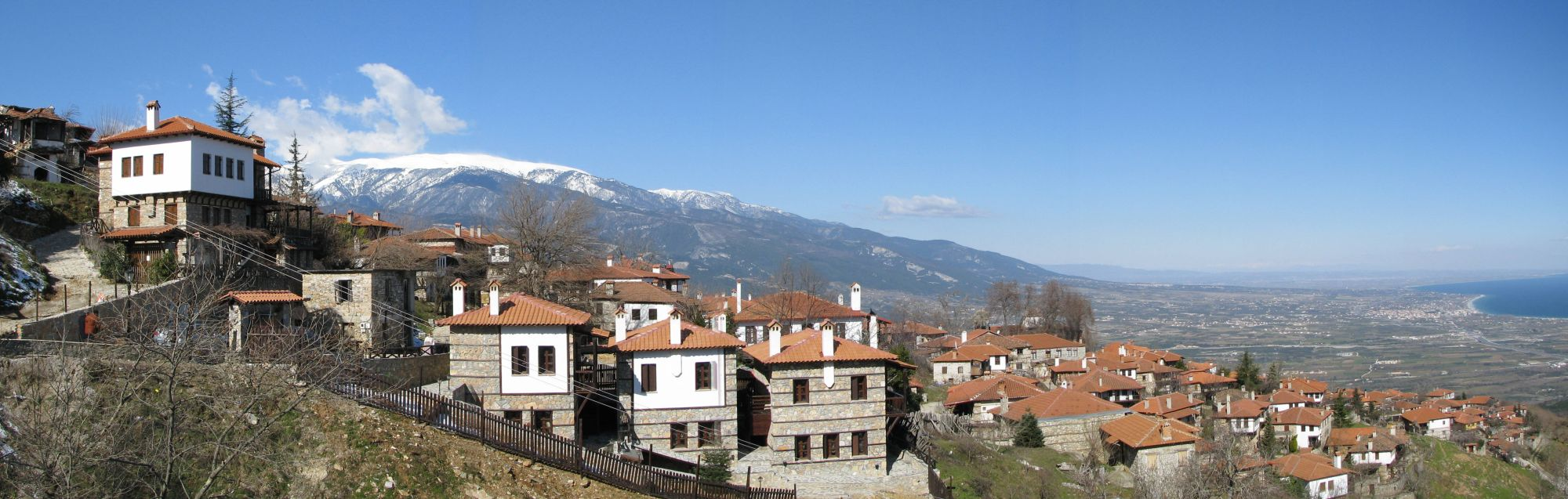 Old Panteleimonas village with view to the east side of Olimpos mountain